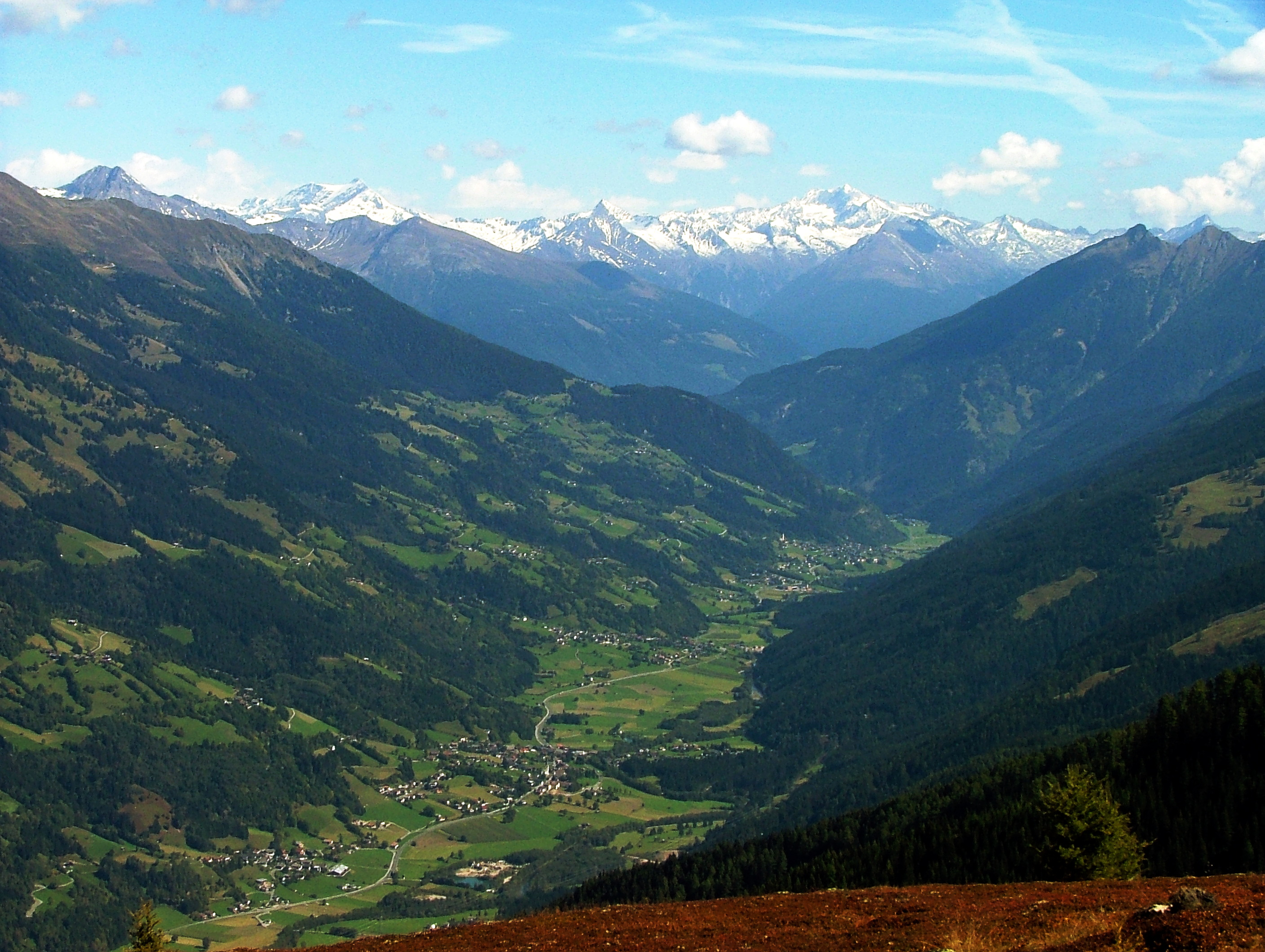 middle of Mölltal with Witschdorf, Rangersdorf and Tresdorf